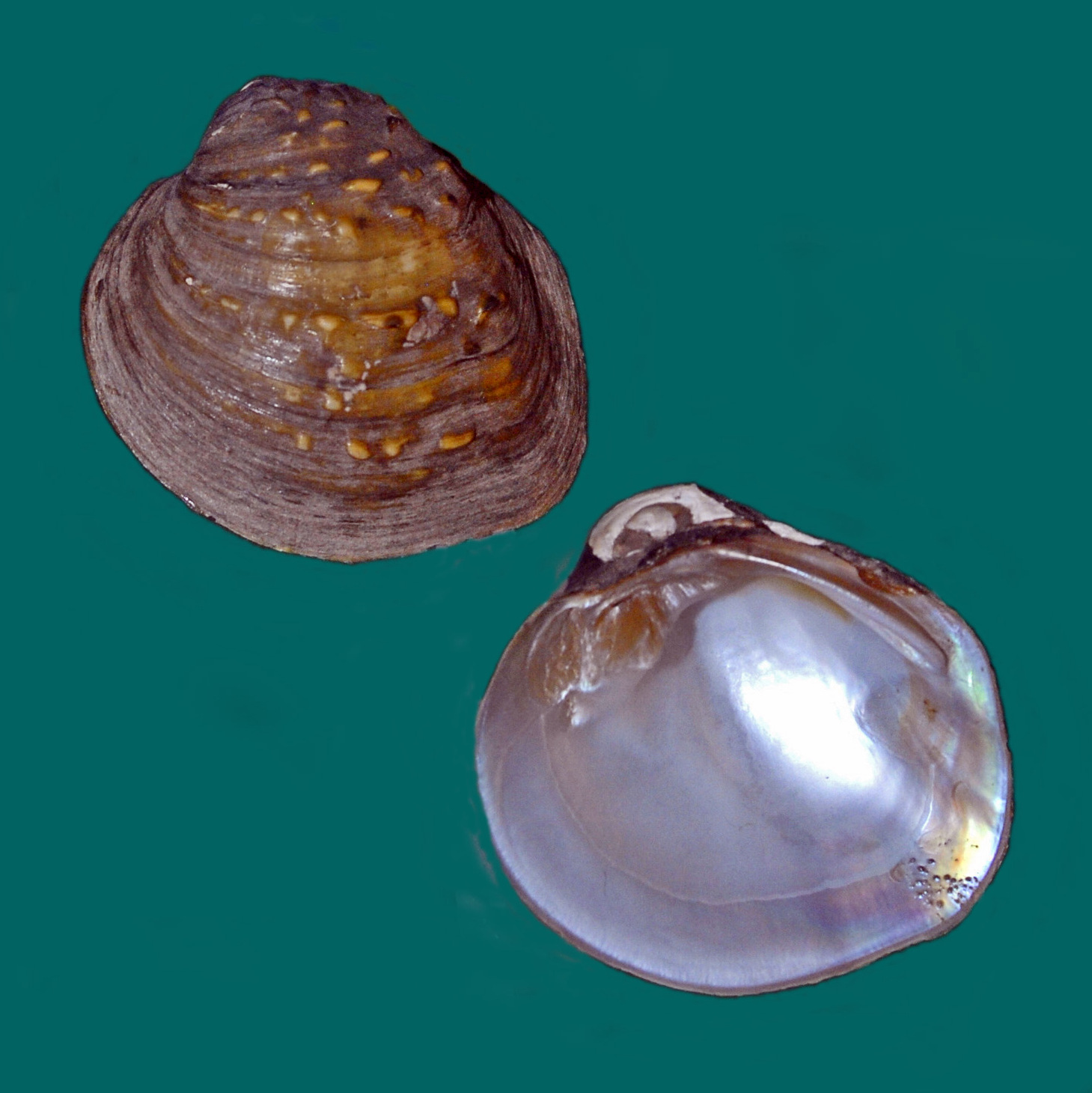 Valves of Rotundaria pustulosa, on display at the Museo Civico Craveri di Scienze Naturali - Bra